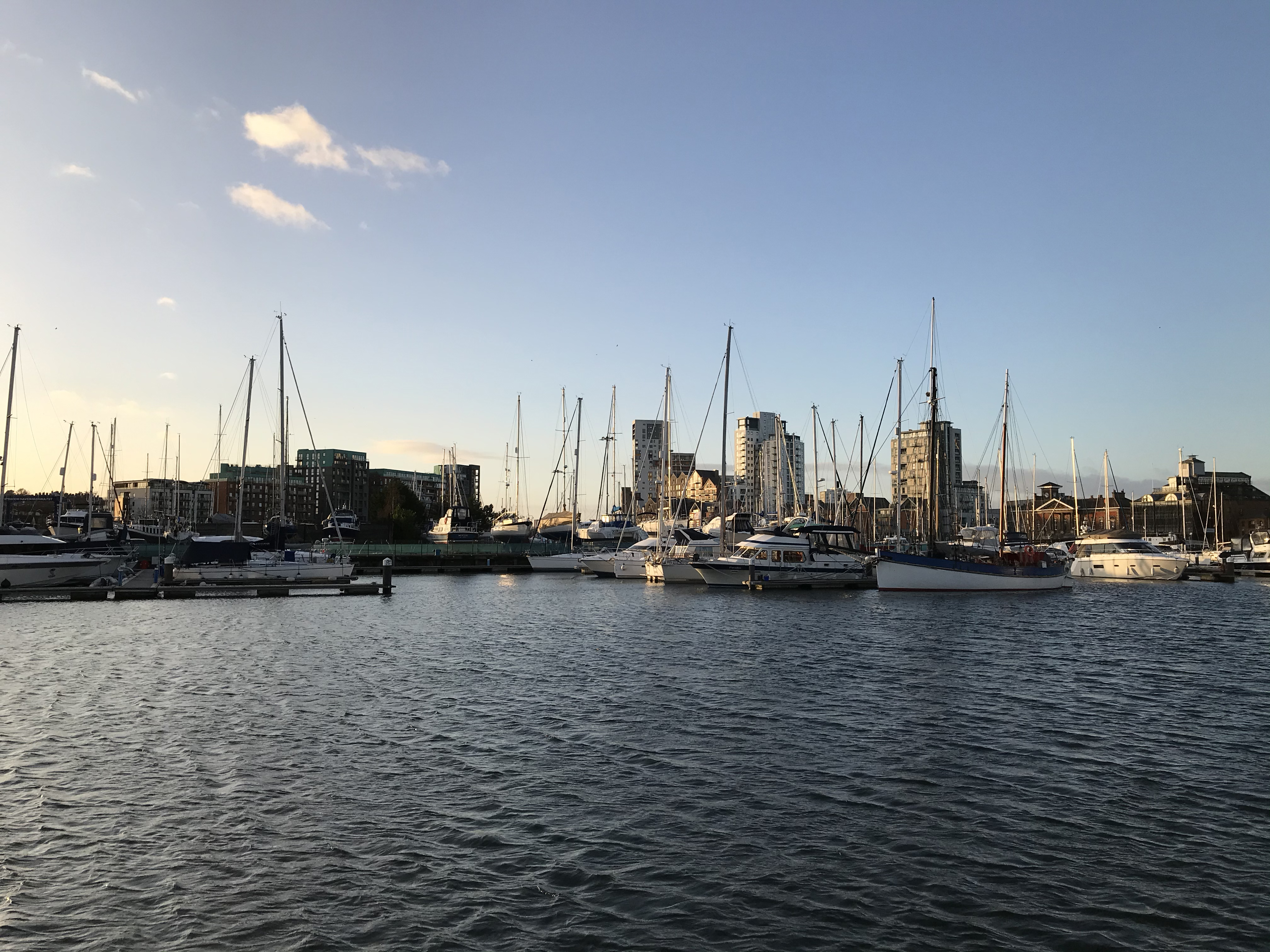 Afternoon on the Ipswich Waterfront